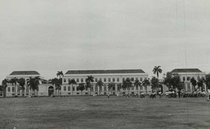 The building of the Department of Financial Affairs at the Lapangan Banteng, Djakarta